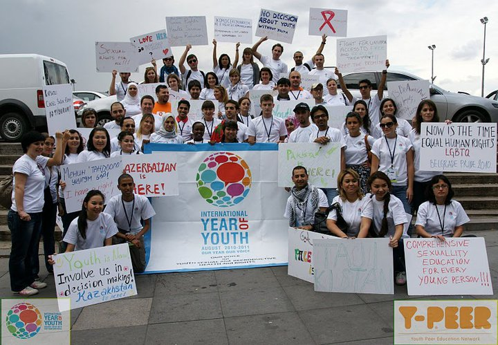 This is a photo from Y-PEER Network`s activity within the bounds of International Year of Youth,which took place in Istanbul during the Global Advisory Board Meeting